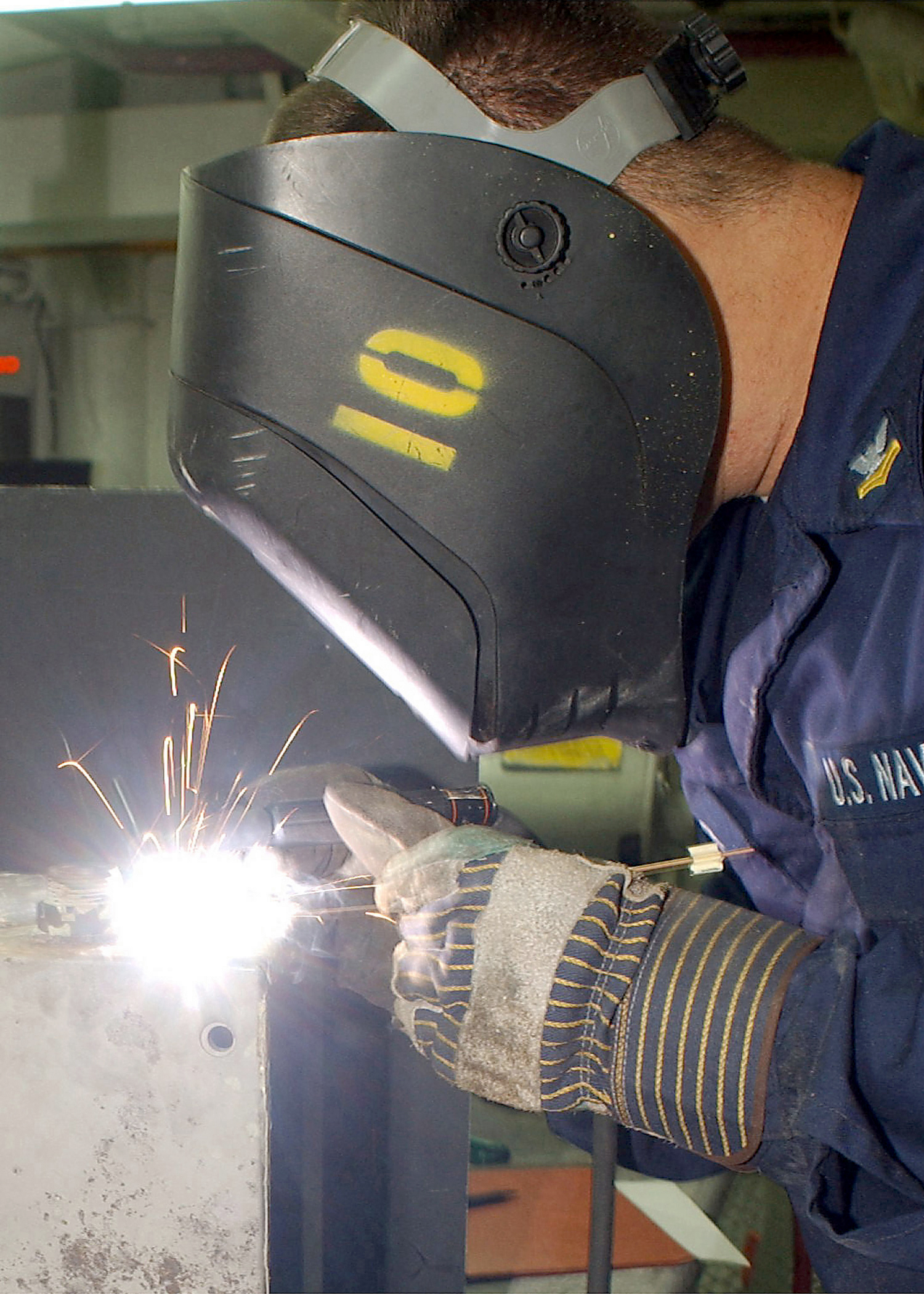 At sea aboard USS George Washington (CVN 73) Jul. 24, 2002 -- Hull Maintenance Technician 2nd Class Robert Heather from Montrose, IA, conducts welding operations in the aircraft carrier’s welding shop. Washington and her Battlegroup are on a regularly scheduled deployment conducting missions in support of Operation Enduring Freedom. U.S. Navy photo by Photographer's Mate Airman Lindsay Switzer. (RELEASED)